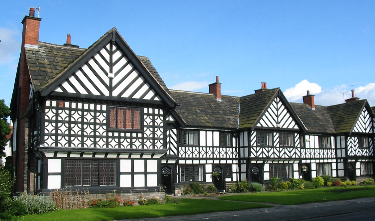 Liverpool